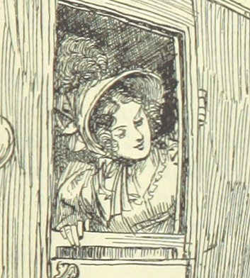 Image taken from: Title: "[Emma. New edition.]", "Single Works" Author: Austen, Jane Contributor: DOBSON, Henry Austin. Contributor: THOMSON, Hugh. Shelfmark: "British Library HMNTS 012621.h.27." Page: 379 Place of Publishing: London Date of Publishing: 1896 Publisher: Macmillan & Co. Edition: [Another edition.] Illustrated by Hugh Thomson. With an introduction by Austin Dobson. Issuance: monographic Identifier: 000144509 Explore: Find this item in the British Library catalogue, 'Explore'. Download the PDF for this book (volume: 0) Image found on book scan 379 (NB not necessarily a page number) Download the OCR-derived text for this volume: (plain text) or (json) Click here to see all the illustrations in this book and click here to browse other illustrations published in books in the same year. Order a higher quality version from here.